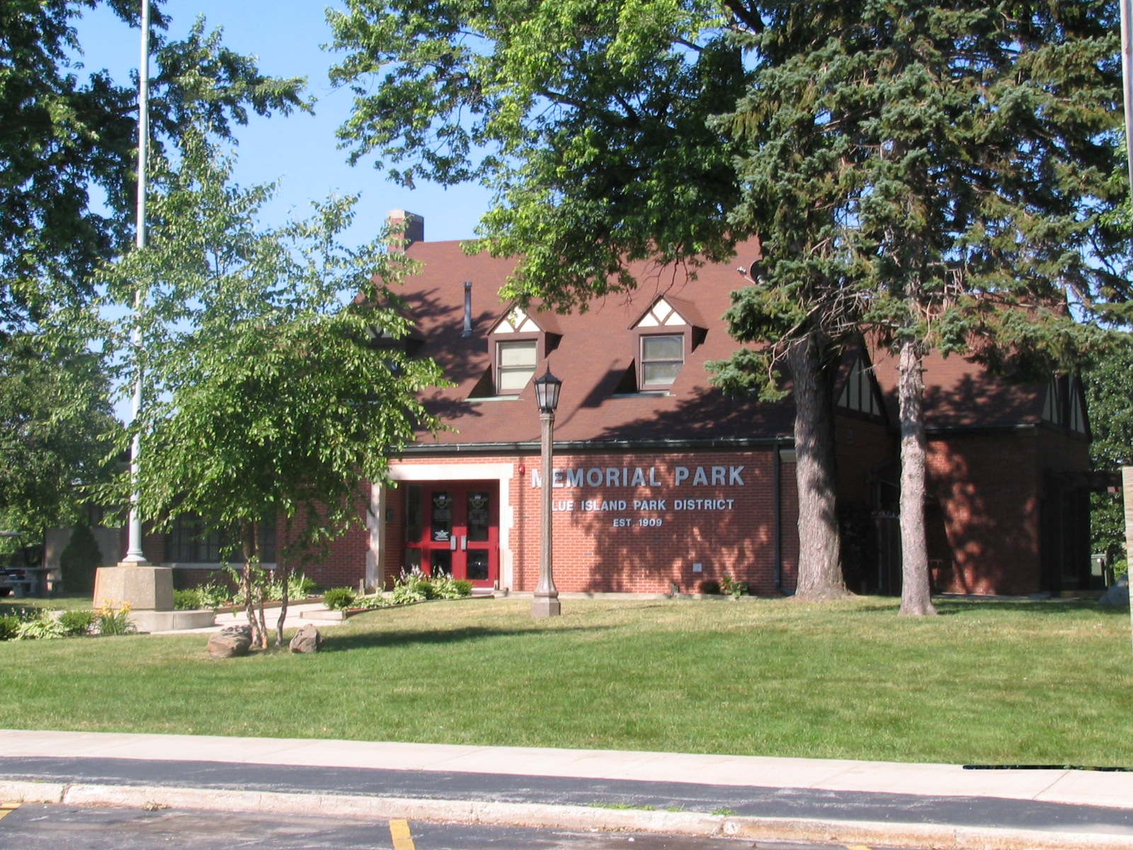 Memorial Park Field House, Blue Island, Illinois